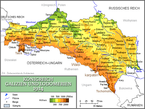 Map of the Kingdom of Galicia, 1914.